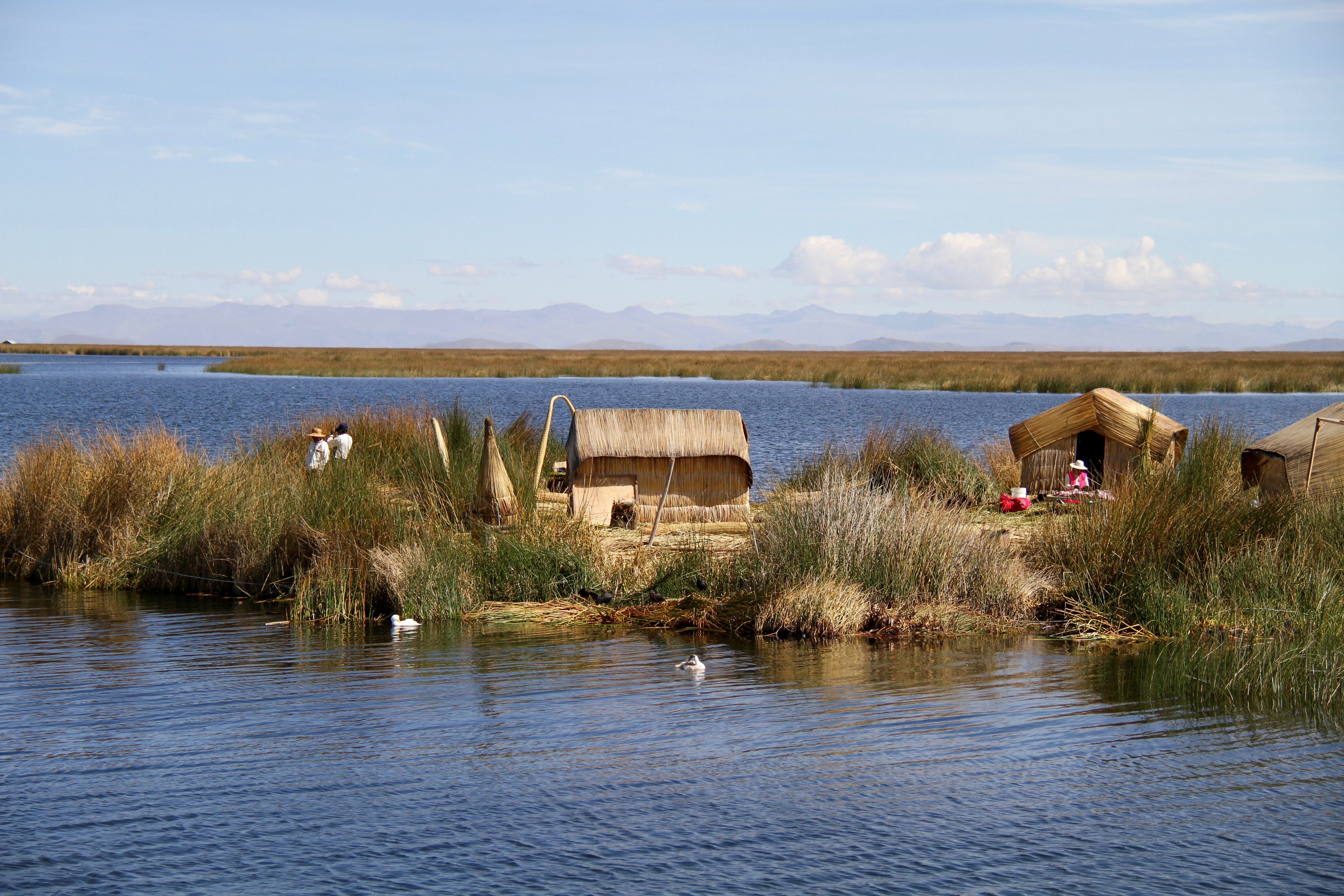 Uros islands made from reeds found in the lake